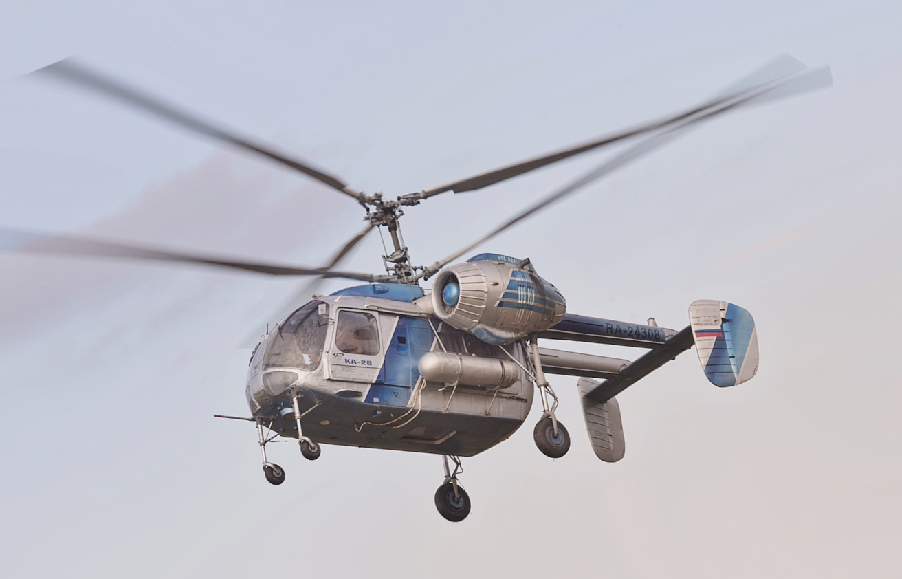 Kamov Ka-26, RA-24308